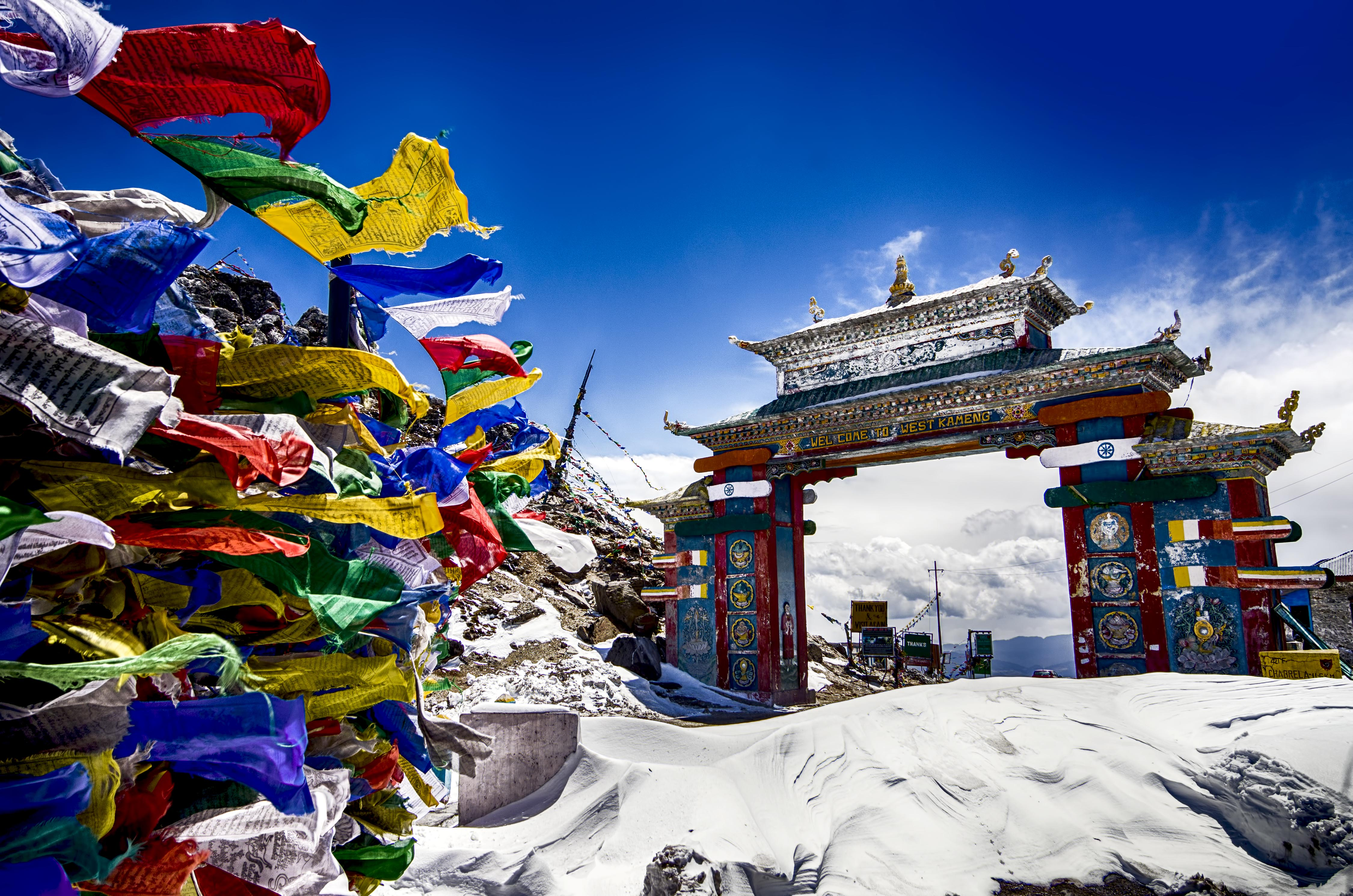 This photograph was captured near Sela Pass of Tawang.